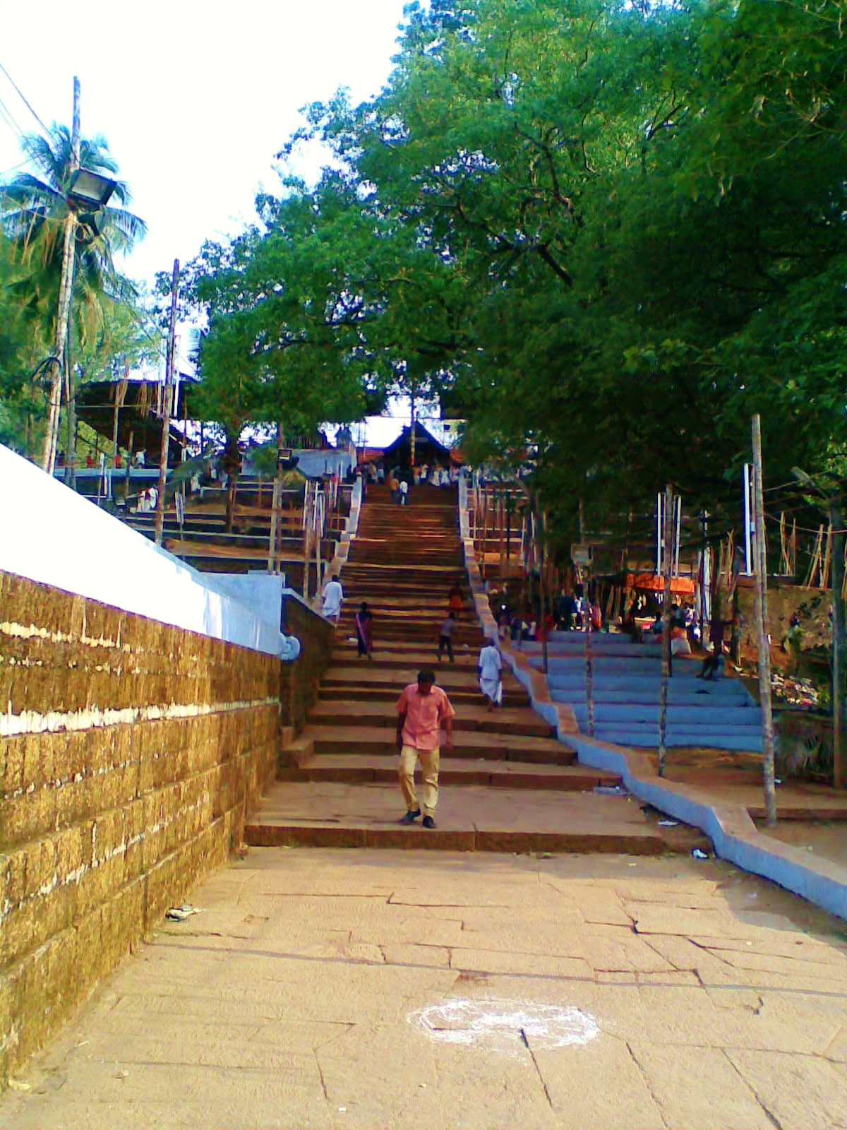 The northern side of Thirumanthamkunnu temple.